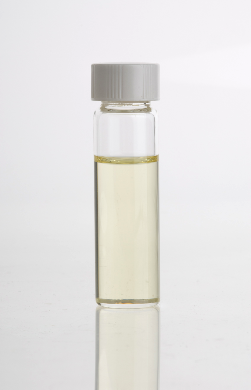 Glass vial containing Cajuput (Melaleuca leucadendra) Essential Oil